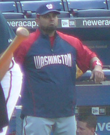 User:Chrisjnelson agreed to license this image of Johnny_Estrada.jpg under a free attribution license. Any use of this image must be attributed; this means that Photo by :en:User:Chrisjnelson|Chris Nelson should be in the picture caption. 21:42, 23 April 2008 . . Chrisjnelson . . 224×275 (82 KB)